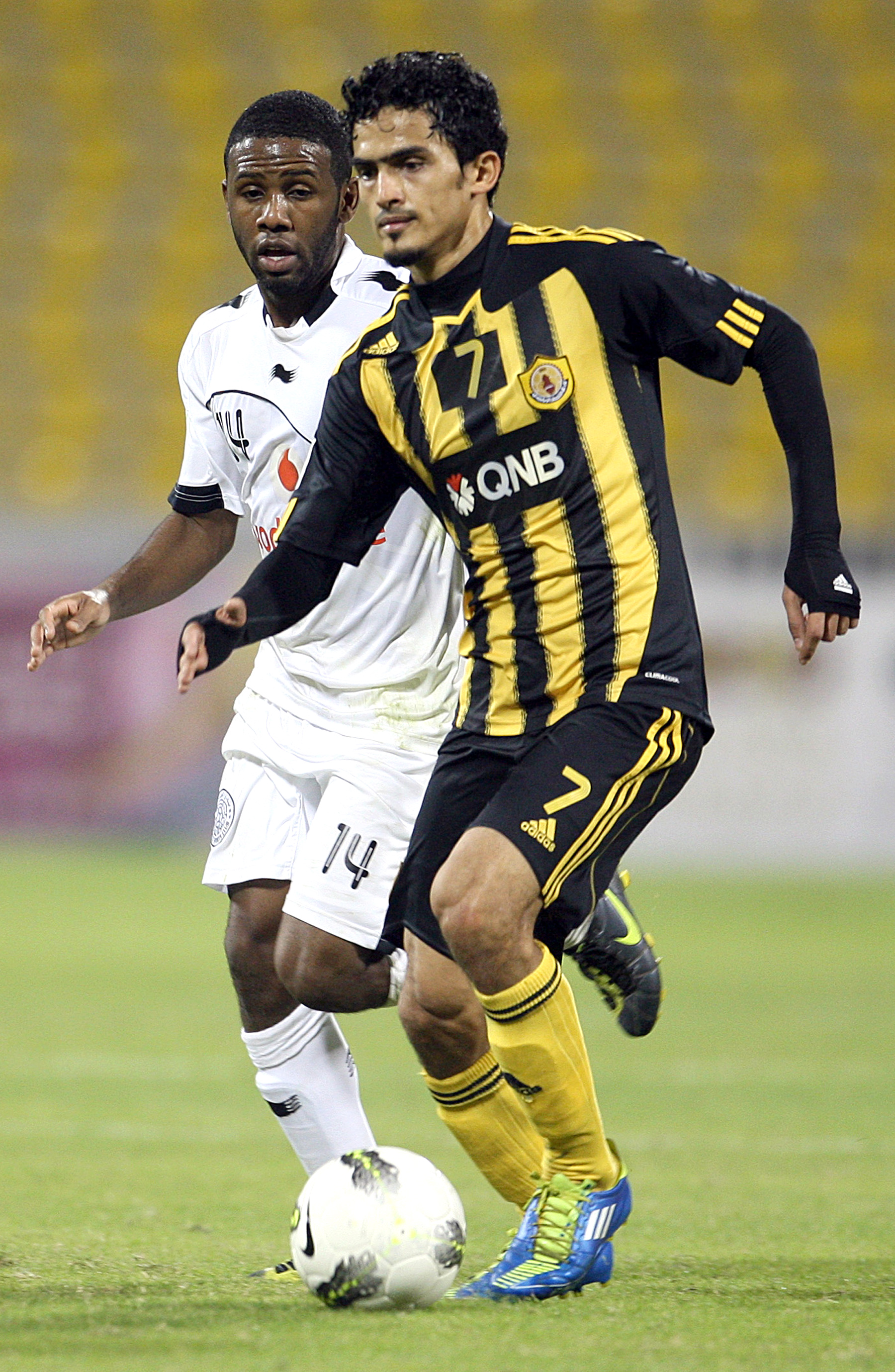 Al Sadd's Khalfan Ibrahim, left, and Qatar SC's Mohamed Omar fight for the ball during their Qatar Stars League match. Pic by Mohan